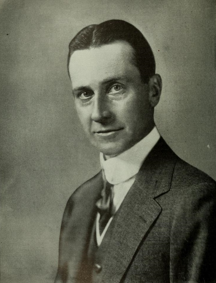 Portrait of George Parmly Day